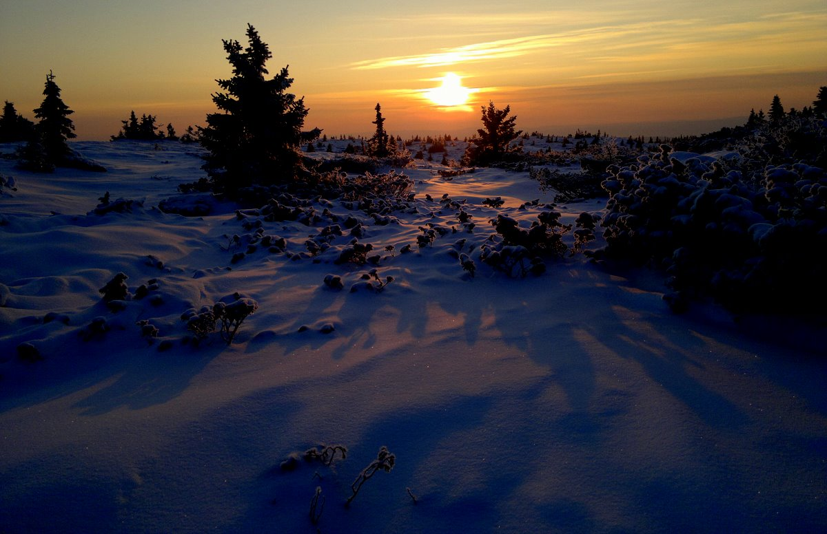 From Nokia N8. 16 - C. Adjusted in Picasa. The track of this path is on my Bjorn @heidenstrom